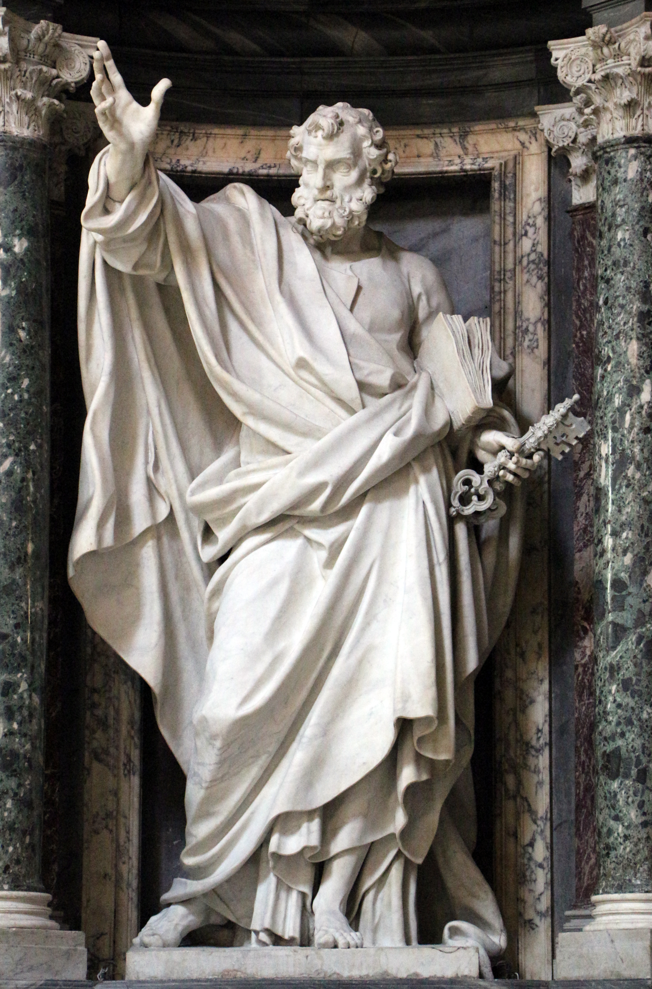 Twelve apostles in San Giovanni in Laterano